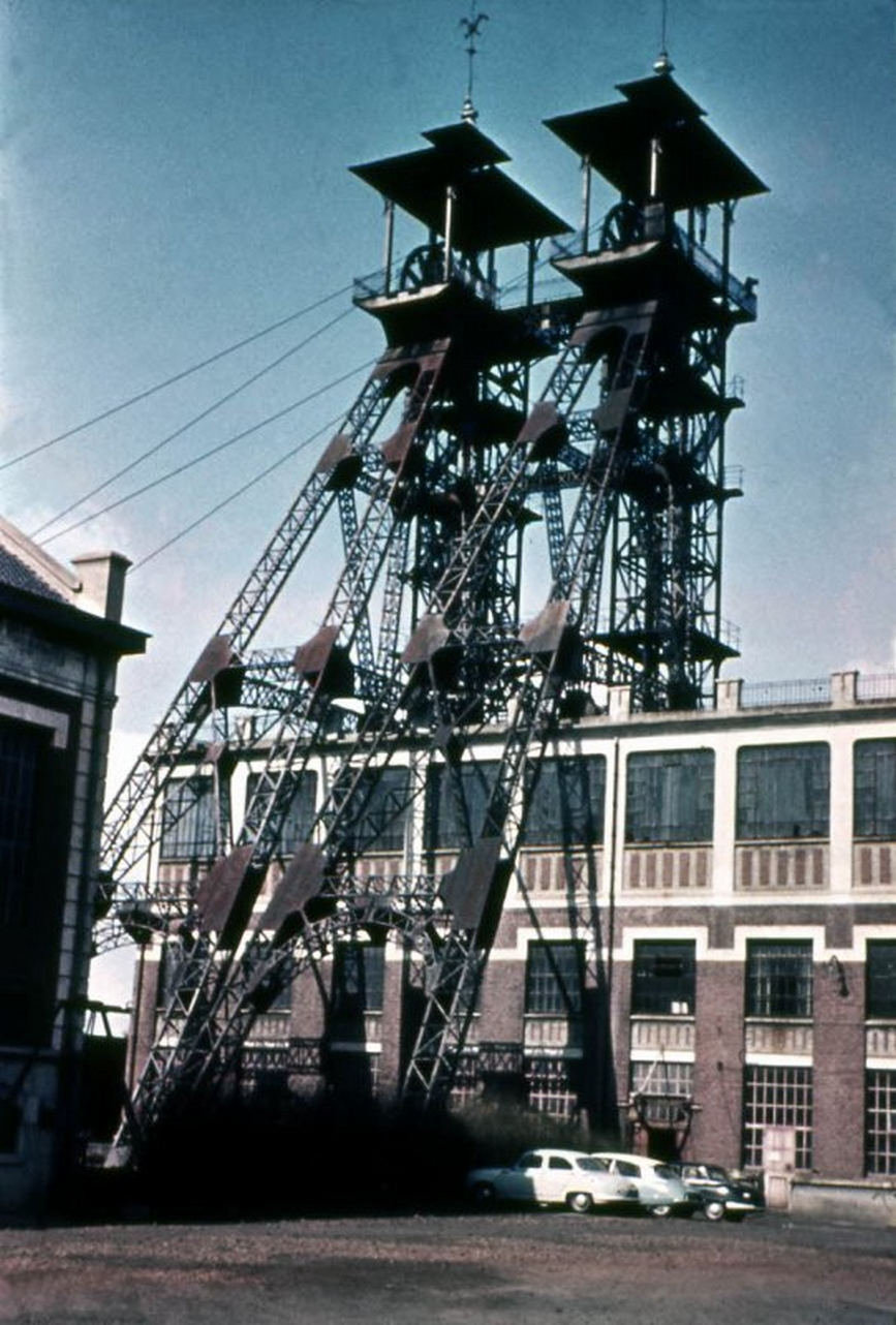 Coalpits n° 7 - 7 bis, Compagnie des mines de Lens, Wingles, Pas-de-Calais, France.